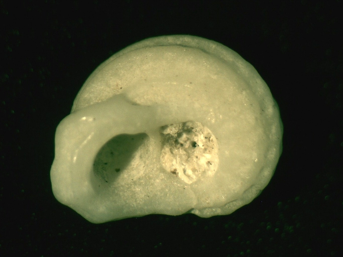 Munditia subquadrata (Tenison-Woods, 1878), a sea snail in the family Liotiidae; South Australia